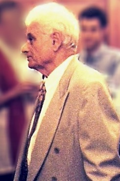 Chinmoy Guha with Derrida (cropped)